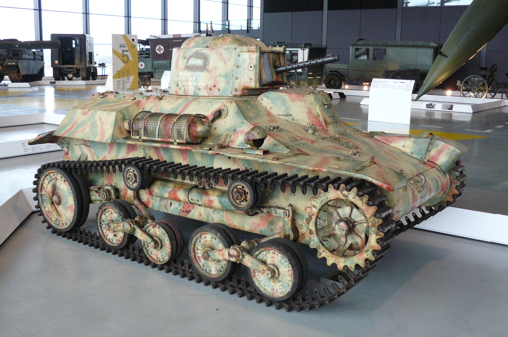 Type 97 Te Ke in the Dutch Nationaal Militair Museum